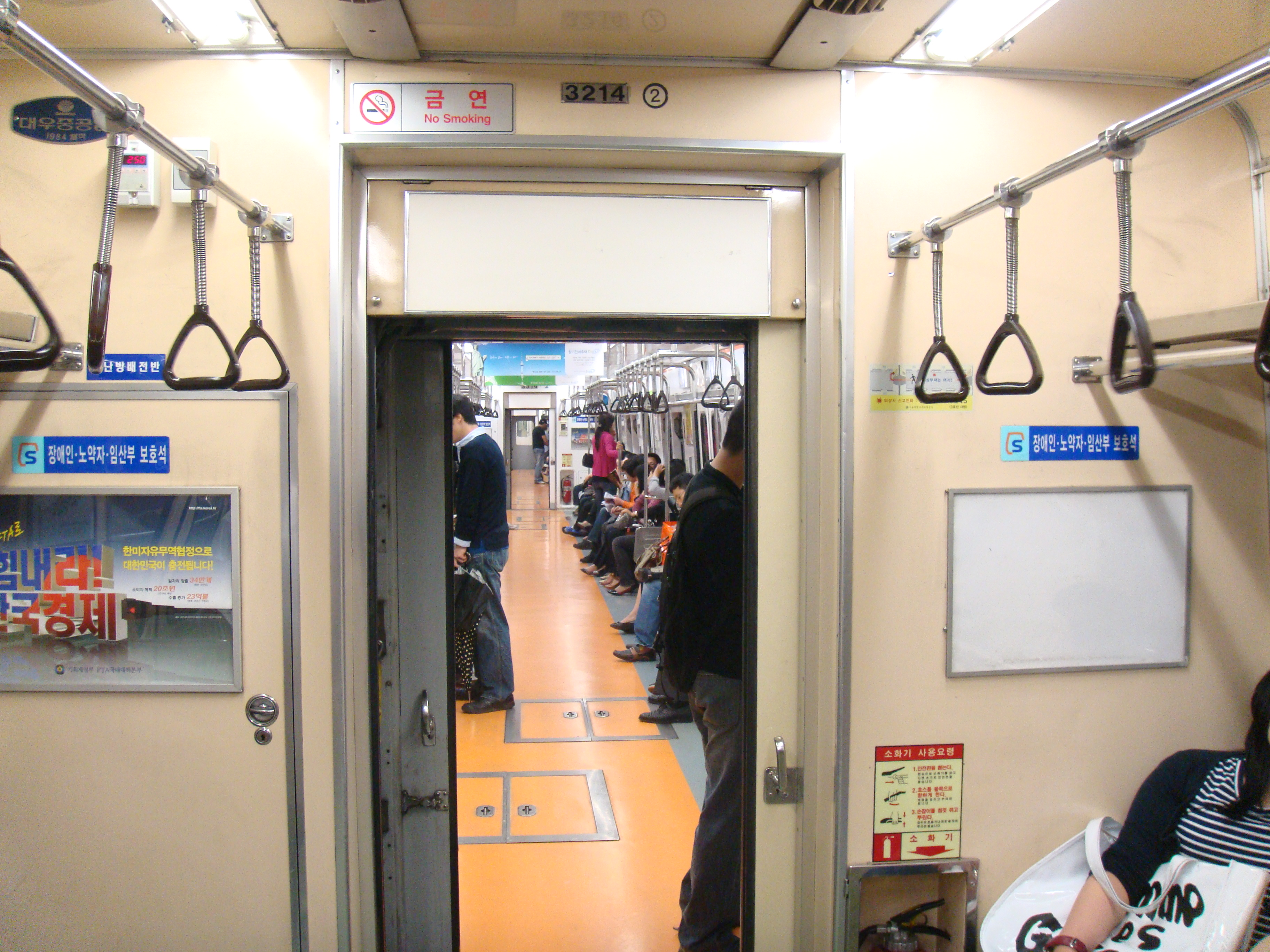 Unfurbished car gangway of the Seoul Metro Class 3000, leading to a refurbished car. Manufacturer's decal is visible (Daewoo, 1984)